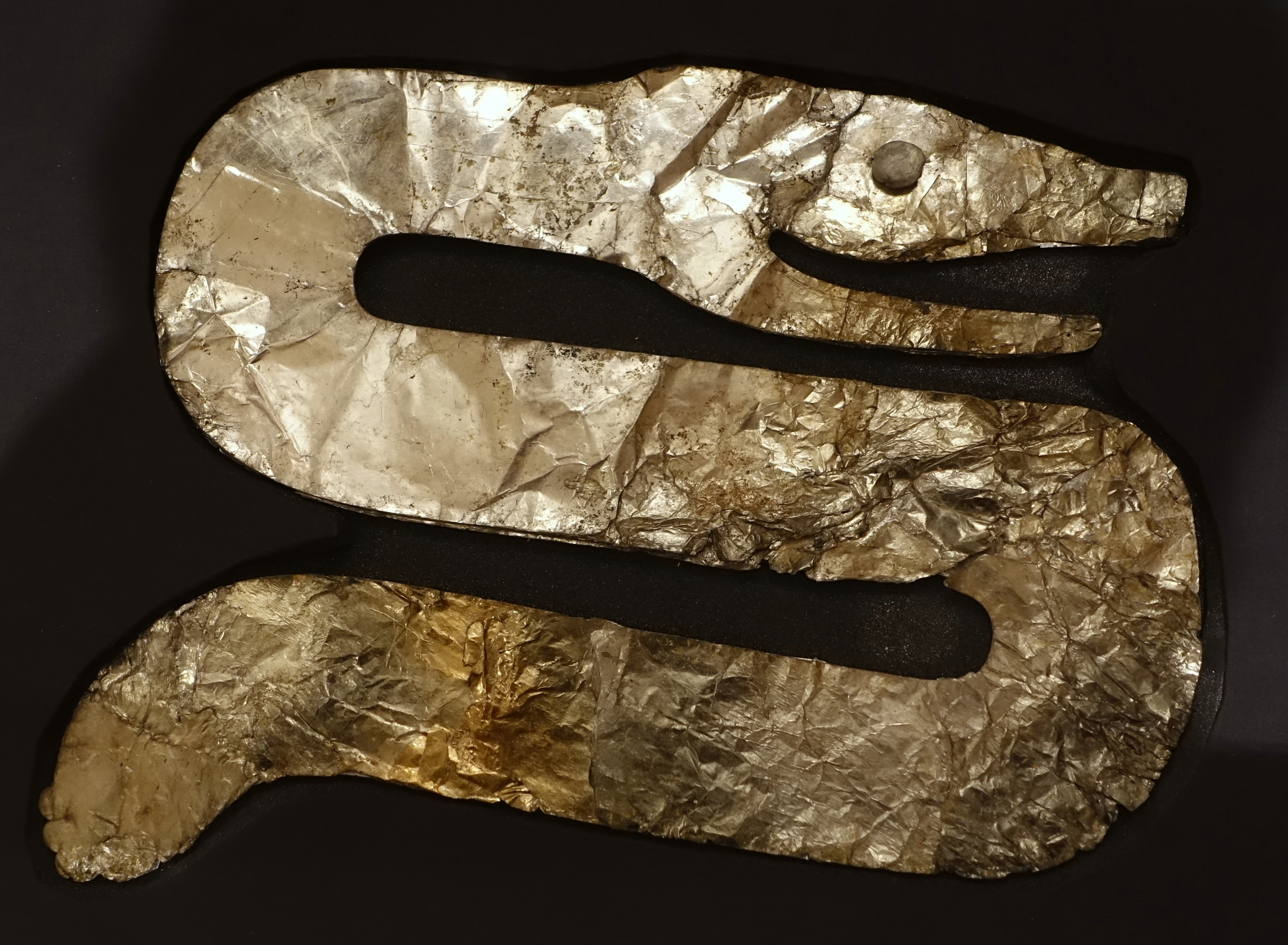 Exhibit from the Native American Collection, Peabody Museum, Harvard University, Cambridge, Massachusetts, USA. Photography was permitted without restriction; exhibit is old enough so that it is in the public domain.